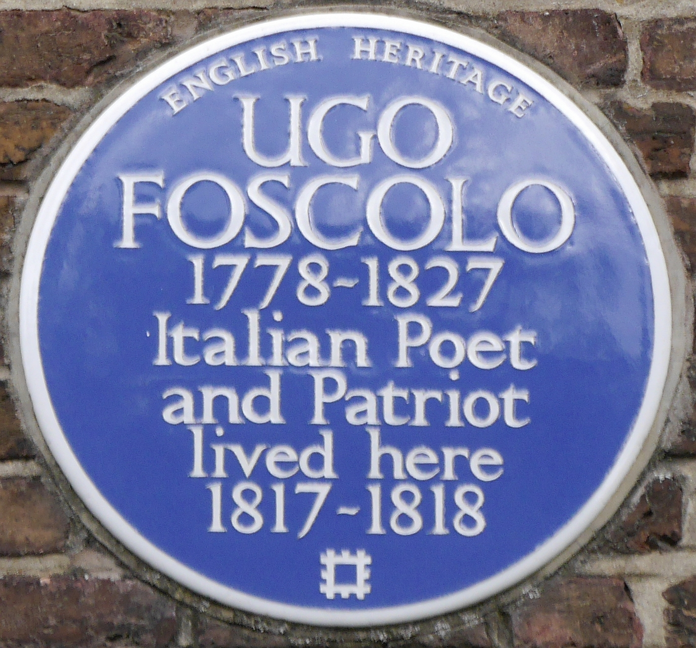 Edwardes Square, London W8